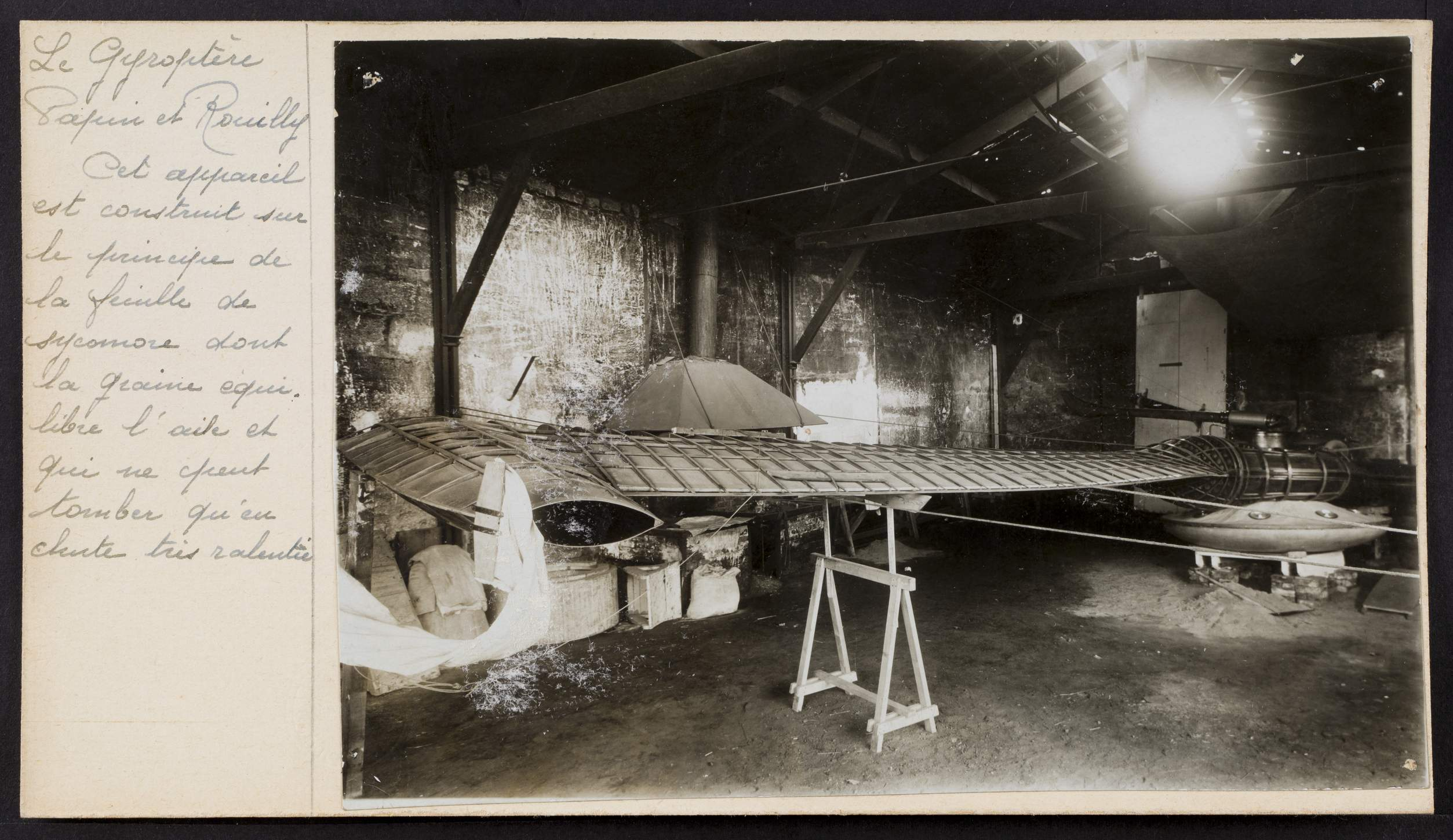 Le Gyroptère Papin et Rouilly. Cet appareil est construit sur le principe de la feuille de sycomore dont la graine équilibre l'aile et qui ne peut tomber qu'en chute très ralentie.